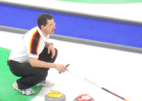 Andy Kapp